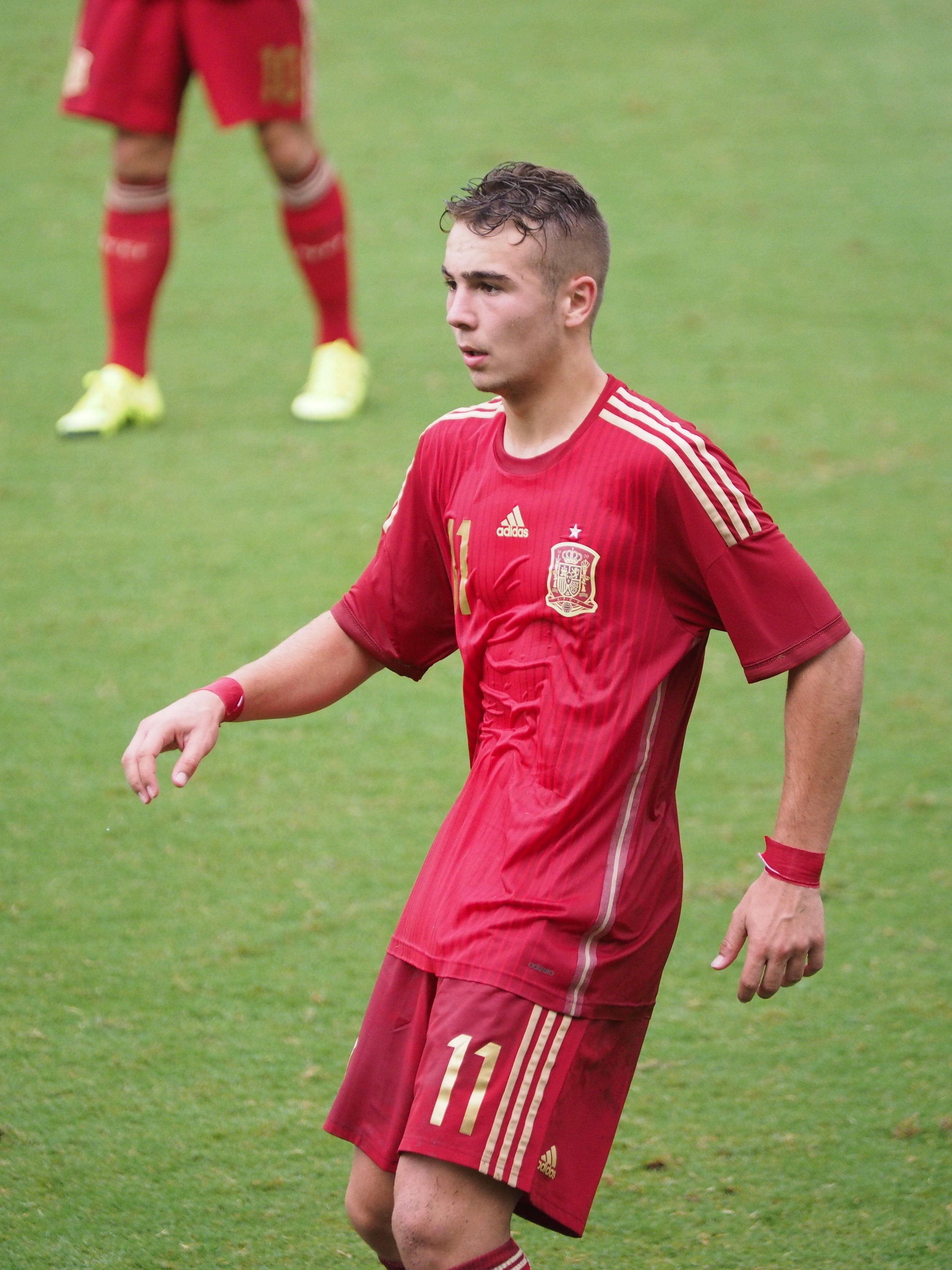 Javier Ontiveros Parra playing for Spain U18 at the 2015 SBS Cup